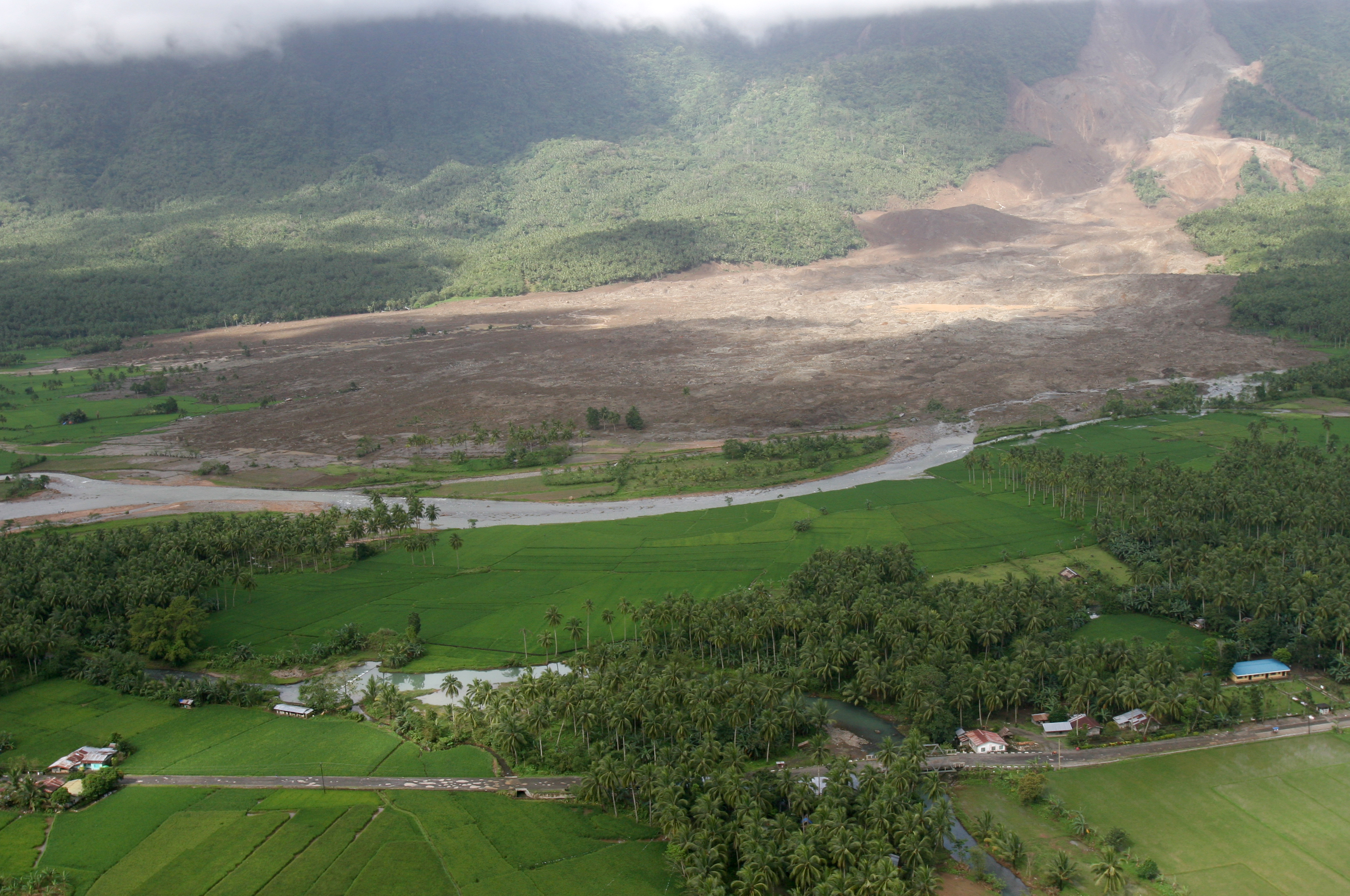 060219-M-8084P-001 Saint Bernard, Republic of the Philippines (Feb. 19, 2006) - An aerial view of the mudslide, which destroyed the town of Guinsahugon the morning of Feb. 17. Guinsahugon is located in the southern part of the island of Leyte in the Philippines. The photo was taken from a CH-46E Sea Knight which was being flown to Guinsahugon to deliver relief supplies. The helicopter is from the 31st Marine Expeditionary Unit's aviation combat element Marine Medium Helicopter Squadron 262 (Reinforced). The MEU, based out of Okinawa, Japan, is deployed to the Philippines as part of the Forward Deployed Amphibious Ready Group (ARG) based out of Sasebo, Japan and was in the Philippines to take part in exercise Balikatan 2006 before responding to a request for aid by the Philippine government. U.S. Marine Corps photo by Lance Cpl. Raymond D. Petersen III (RELEASED)